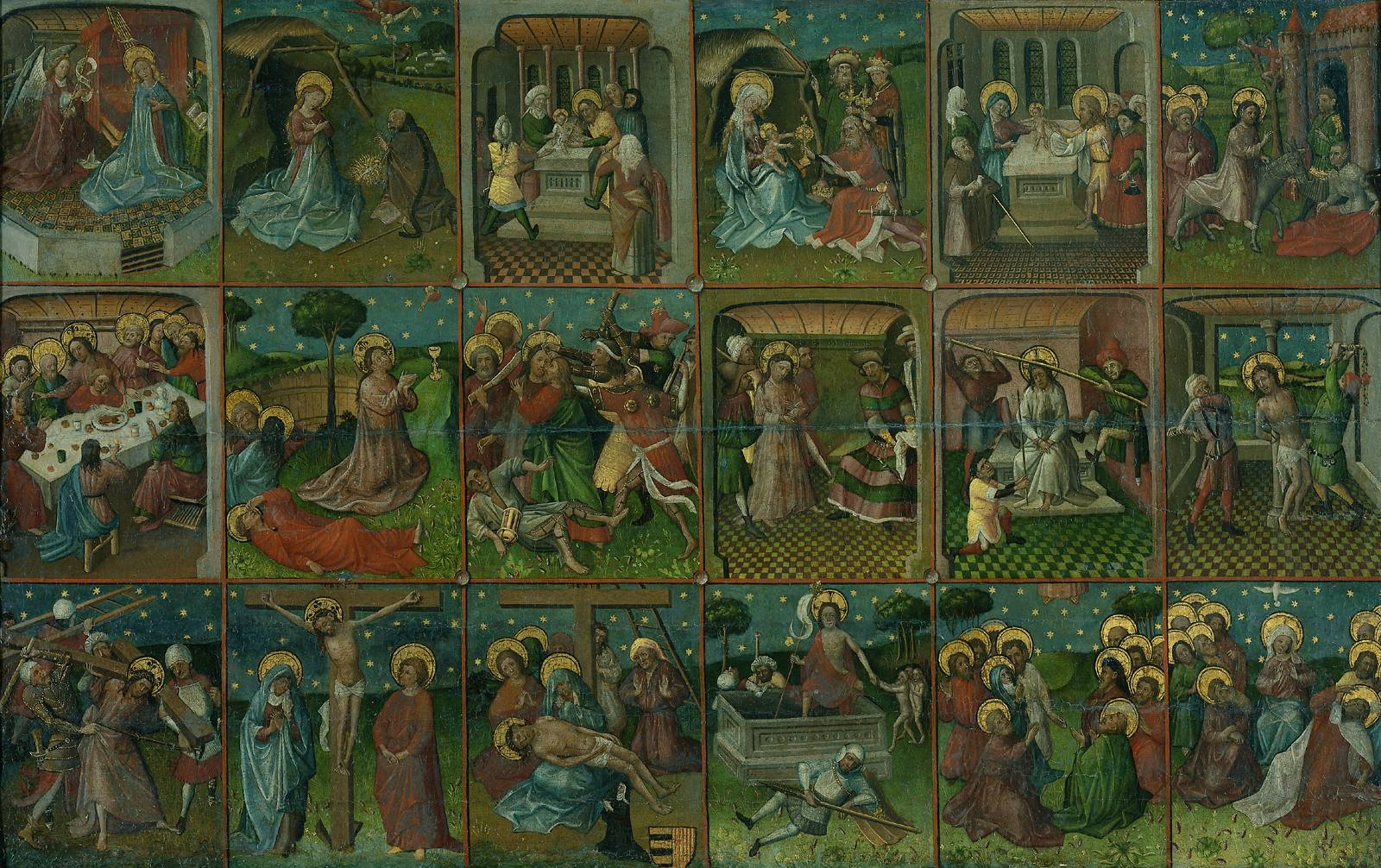 Eighteen scenes from the life of Christ, known as the Roermond Passion. Three rows each containing six scenes, in the top row: the Annunciation, the Birth of Christ, the Circumcision, the Adoration of the Magi, the Presentation in the Temple and the entry into Jerusalem. In the middle row: the Last Supper, Christ on the Mount of Olives, the betrayal by Judas, Christ before Pilate, Christ crowned with thorns and the Flaggalation. In the bottom row: Christ carrying the cross, the Crucifixion, the Lamentation, the Ressurection, the Ascension and Pentecost. iconclass codes: 73E5, 73E425, 73E12, 73D, 73D14, 73B4, 73B57, 73B3, 73B13, 73A52